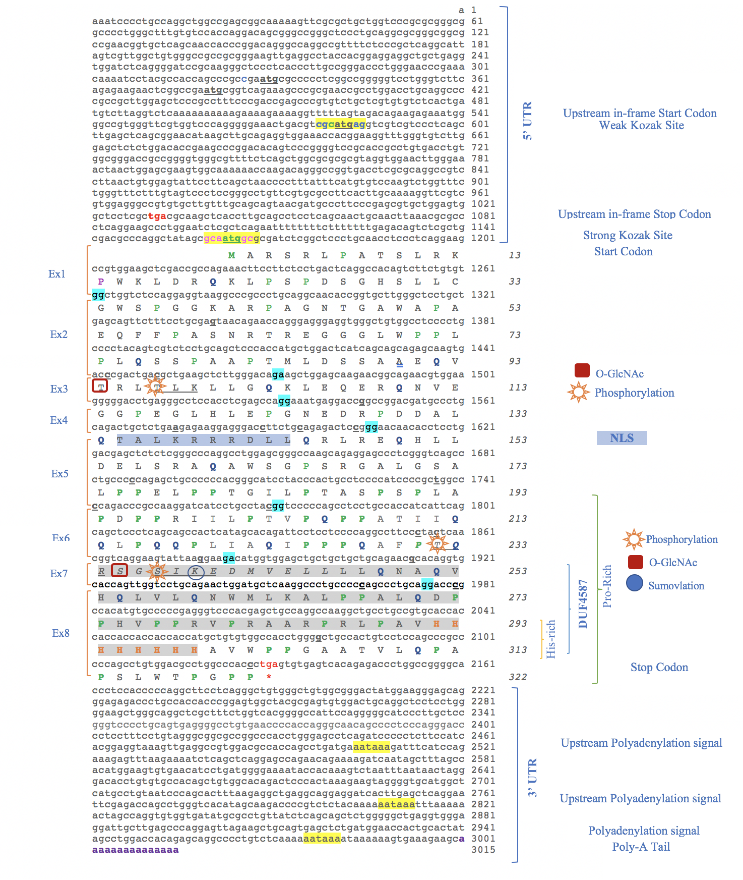 C21orf58 Conceptual Translation with PTM